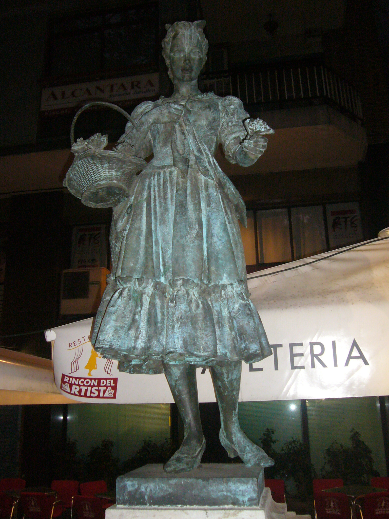 Memorial to Raquel Meller, located in Avinguda del Paral·lel, Barcelona